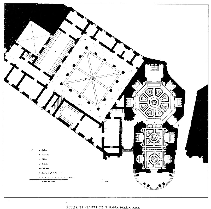 Plan of the Church and Convent of S. Maria della Pace in the Campus Martius, Rome